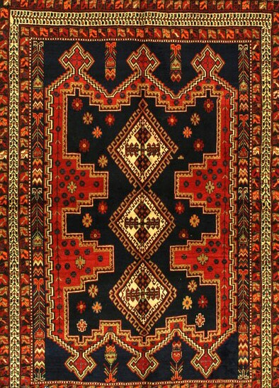 نمونه ای از قالیچه های عشایری شهرستان بافت که به قالیجه های افشاری معروف هستند .نقش سه کله به طور گسترده در این منطقه بافته می شده است.